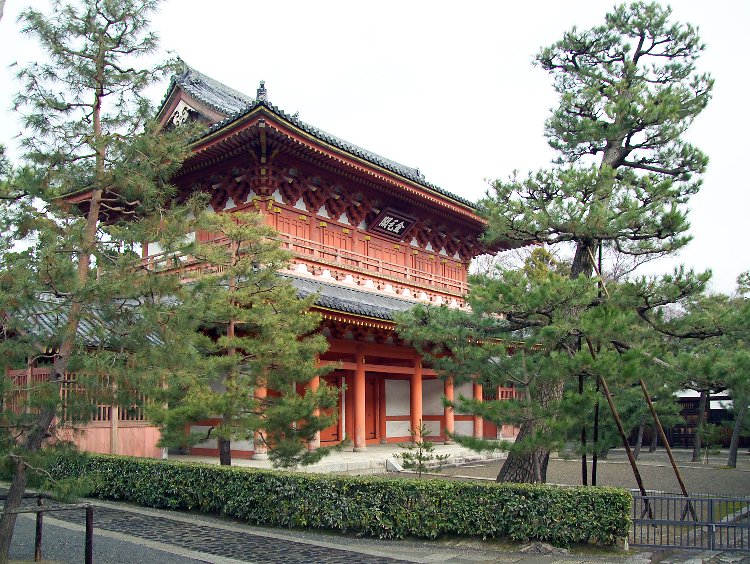 Gate of Daitokuji, an important Zen Buddhist temple in Kyoto, Japan. The tea master Sen no Rikyu completed the gate, and later committed suicide there. I took this photo and contribute my rights in the file to the public domain; individuals and organizations retain rights to images in it.